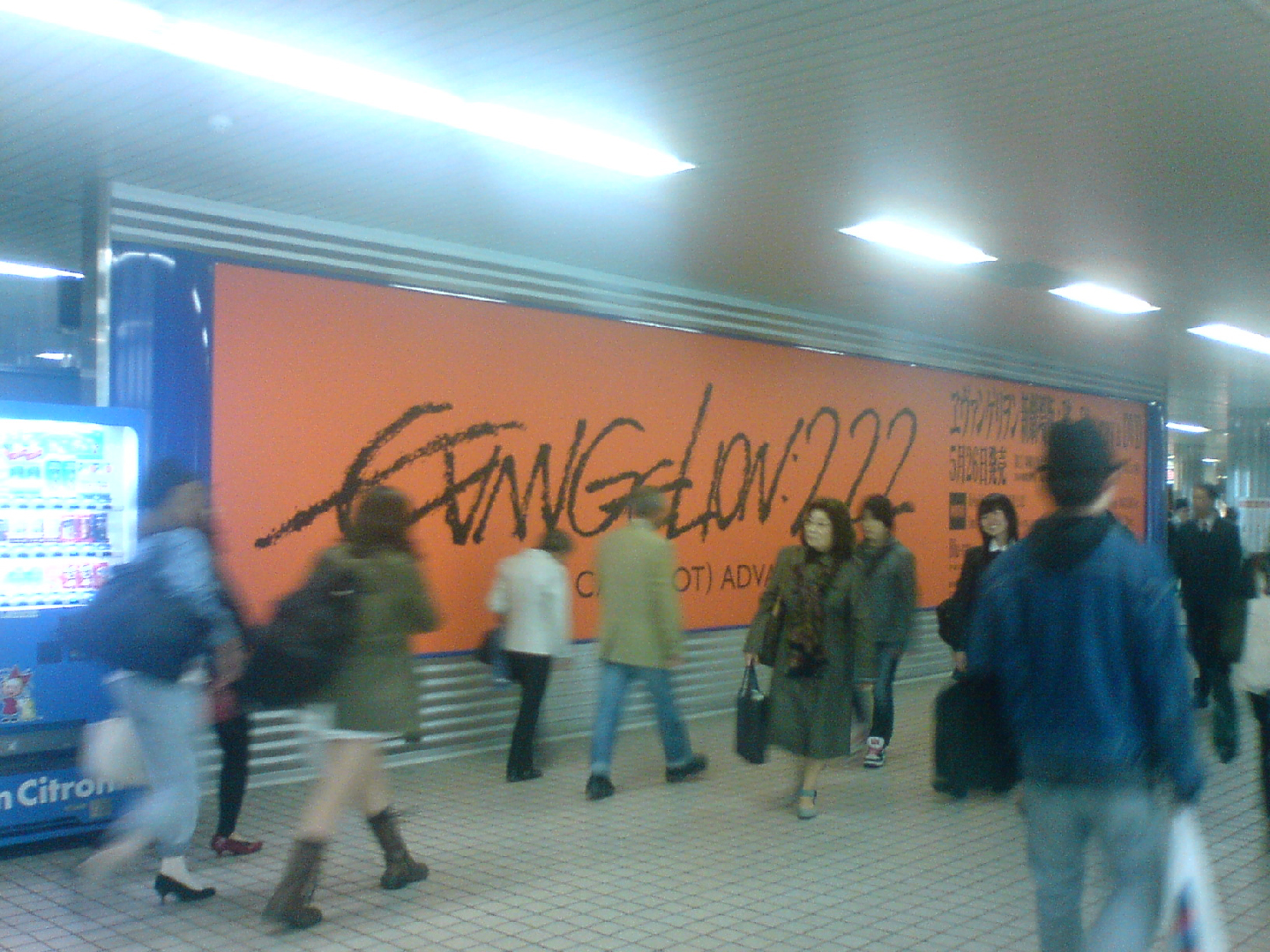 Blu-ray & DVD advertisement (at Sapporo Municipal Subway Odori Station)